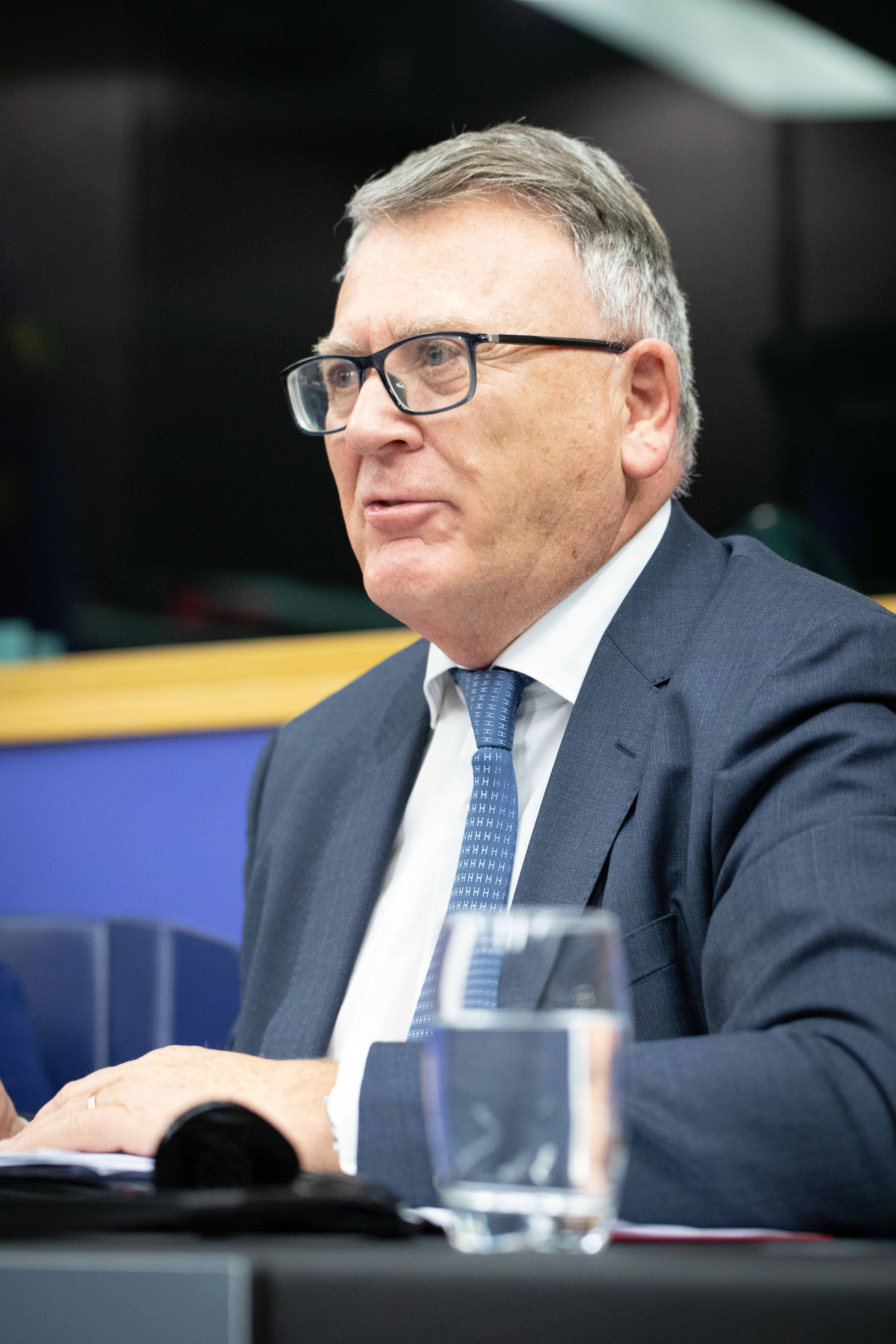 Group meeting with Commissioner Schmit